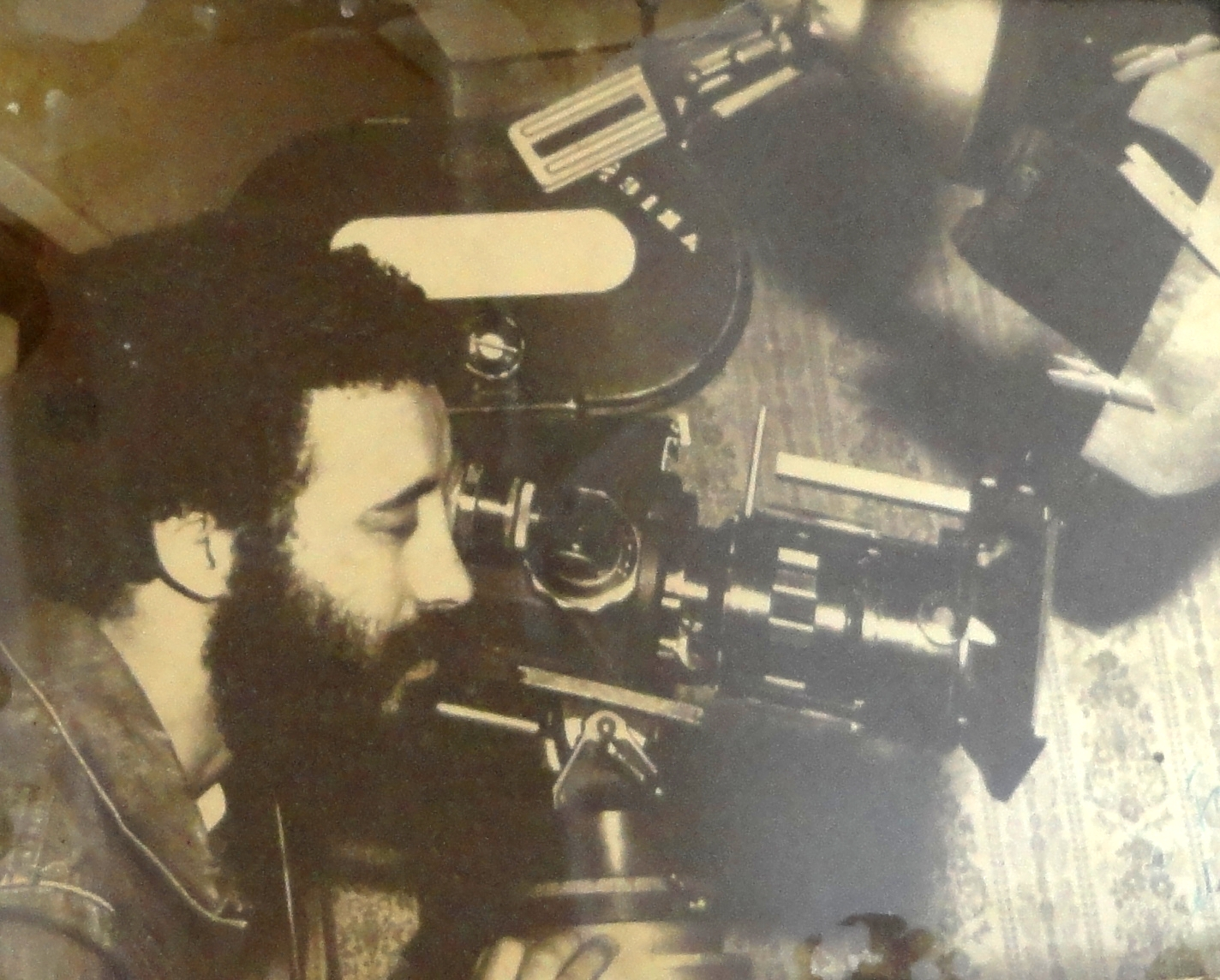 Kadour Naimi on camera during the shooting of his film Marco detto Barabba (Barabbas said Marc), Rome, 1981.